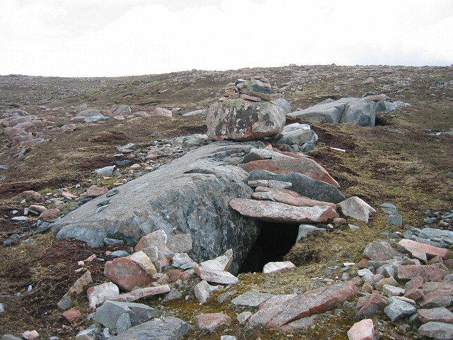 Neolithic axe factory. The large rock is felsite, and was the source for stone tools. The hole to the right of it has dry stone walls and a partial roof.